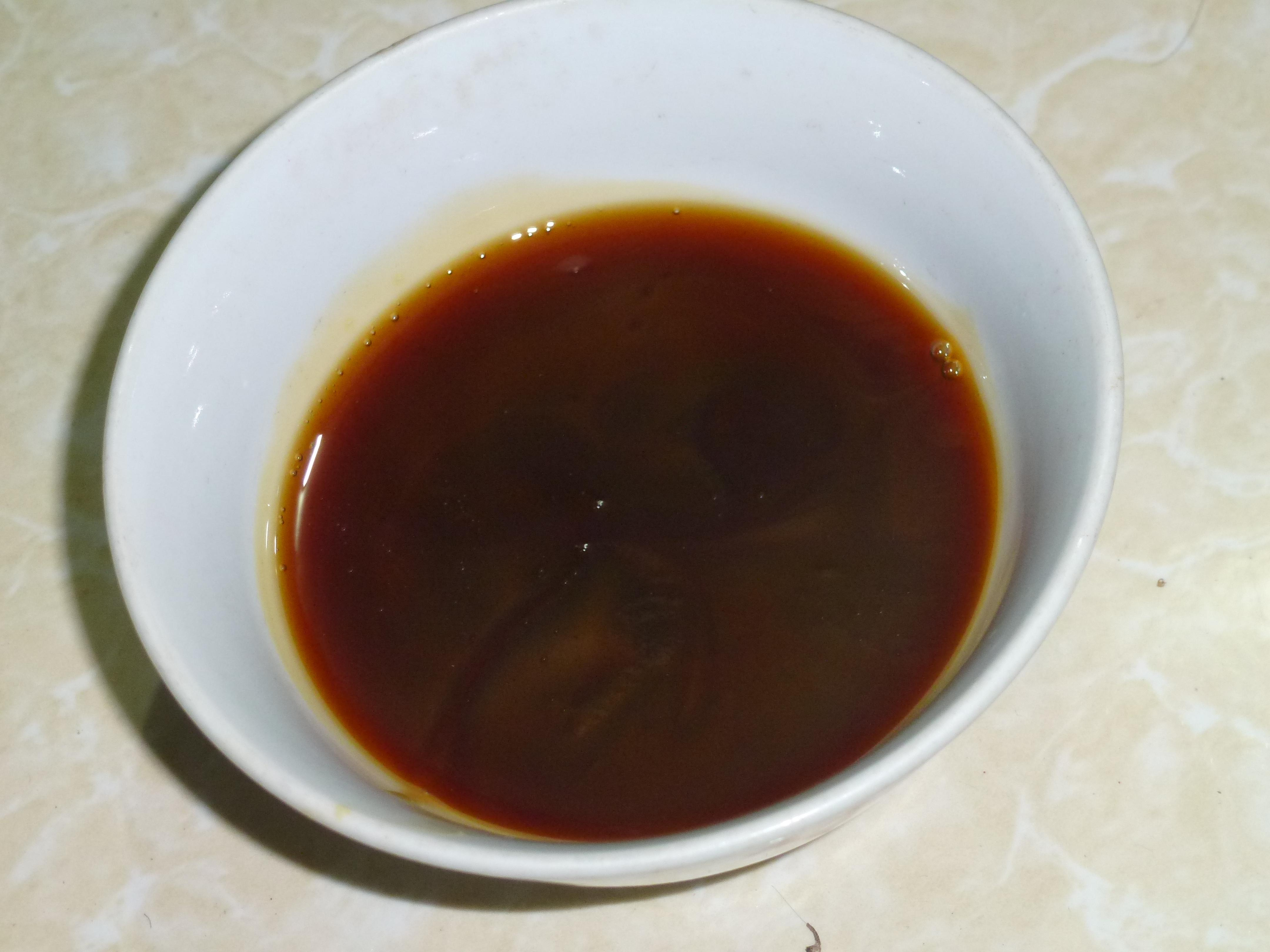 Sugarcane syrup